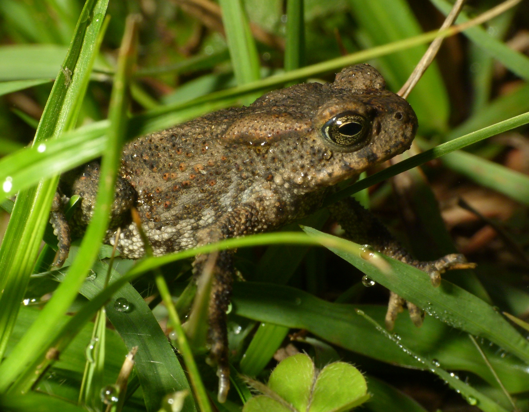 Himalayan toad, Binsar, Almora District.